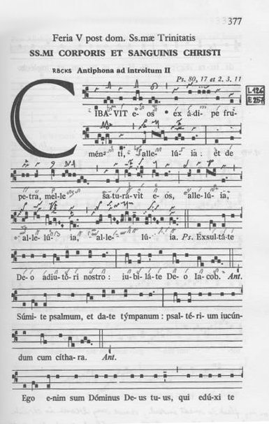 gregorian chant